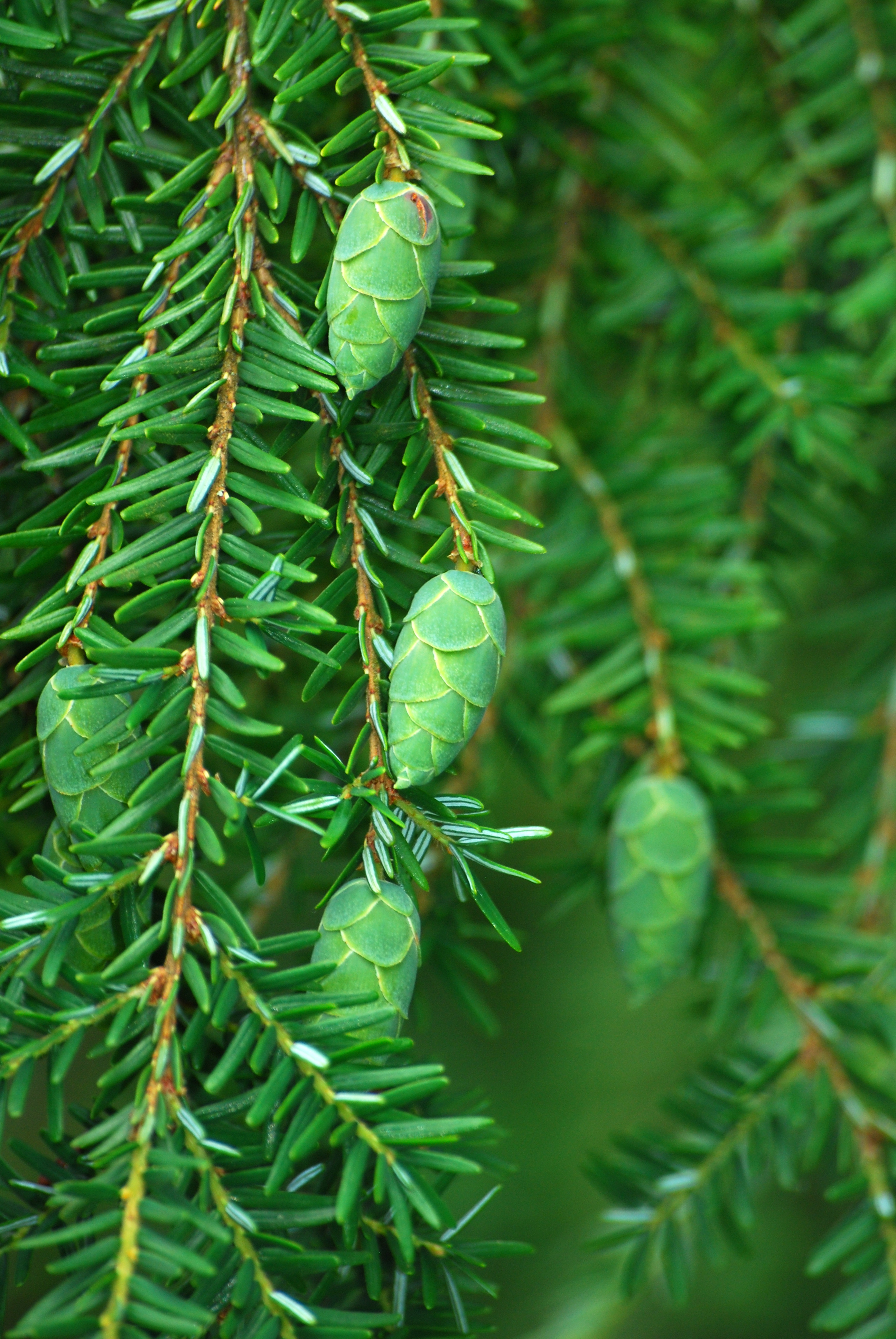 This photo from Podlaskie Voievodeship was taken during Polish Wikiexpedition 2009 set up by Wikimedia Polska Association. The making of this document was supported by Wikimedia Polska. Tsuga canadensis